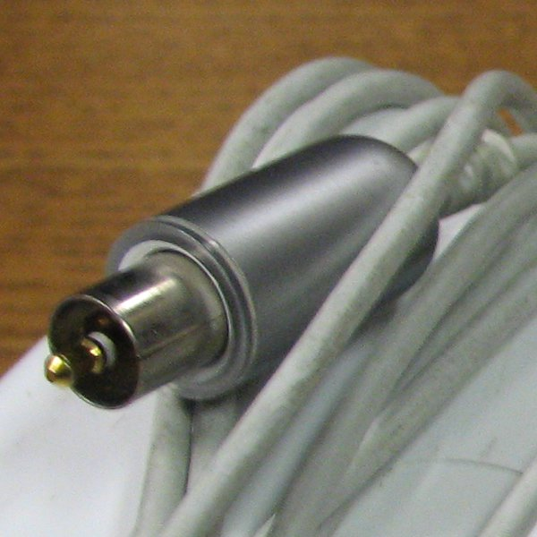 Apple iBook Brick Charger plug -- closeup of plug